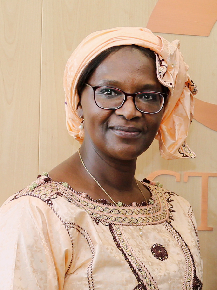 Fatima Djibo Sidikou, Republic of Niger.